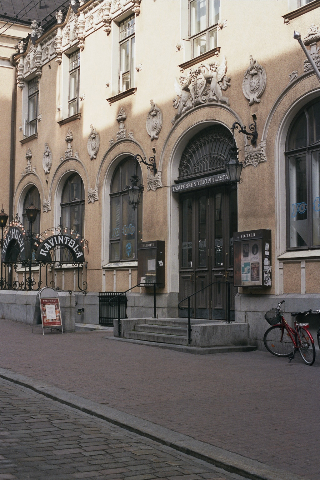 The Student House of Tampere at Kauppakatu 10 in Tampere, Finland. Designed by architect Gustaf Nyström and completed in 1901, the building originally housed a bank.